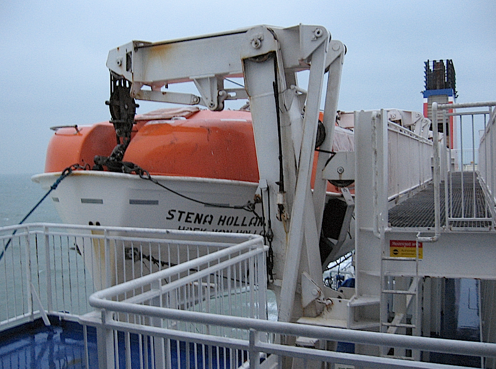 Davits (davit), holding a rescue vessel aboard a ferry.